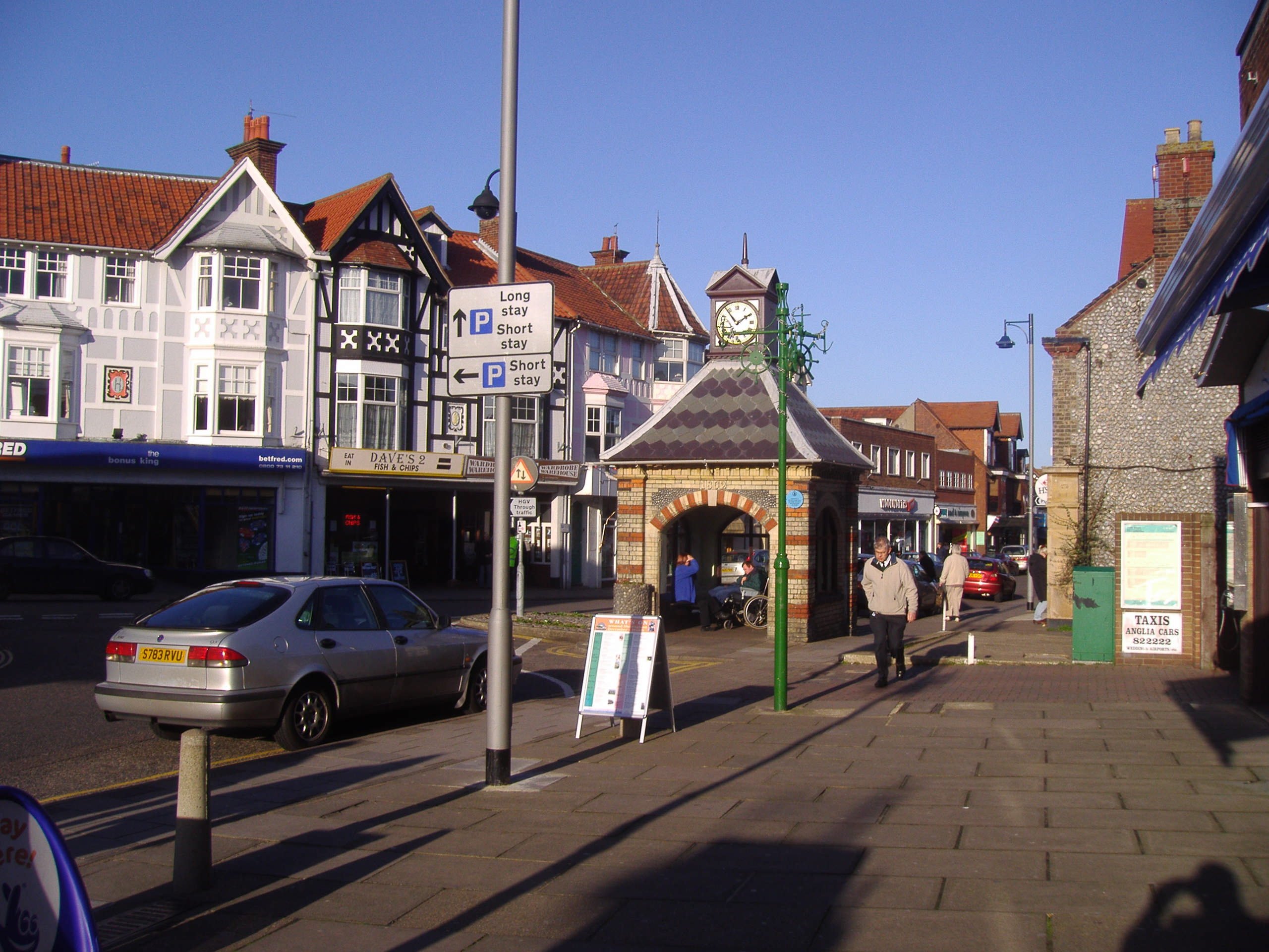 A Digital photograph of Sheringham Town Center at the junction of High street, Church street and Station road Taken on the 24 January 2008 by Stavros1 (talk) 18:12, 24 January 2008 (UTC)